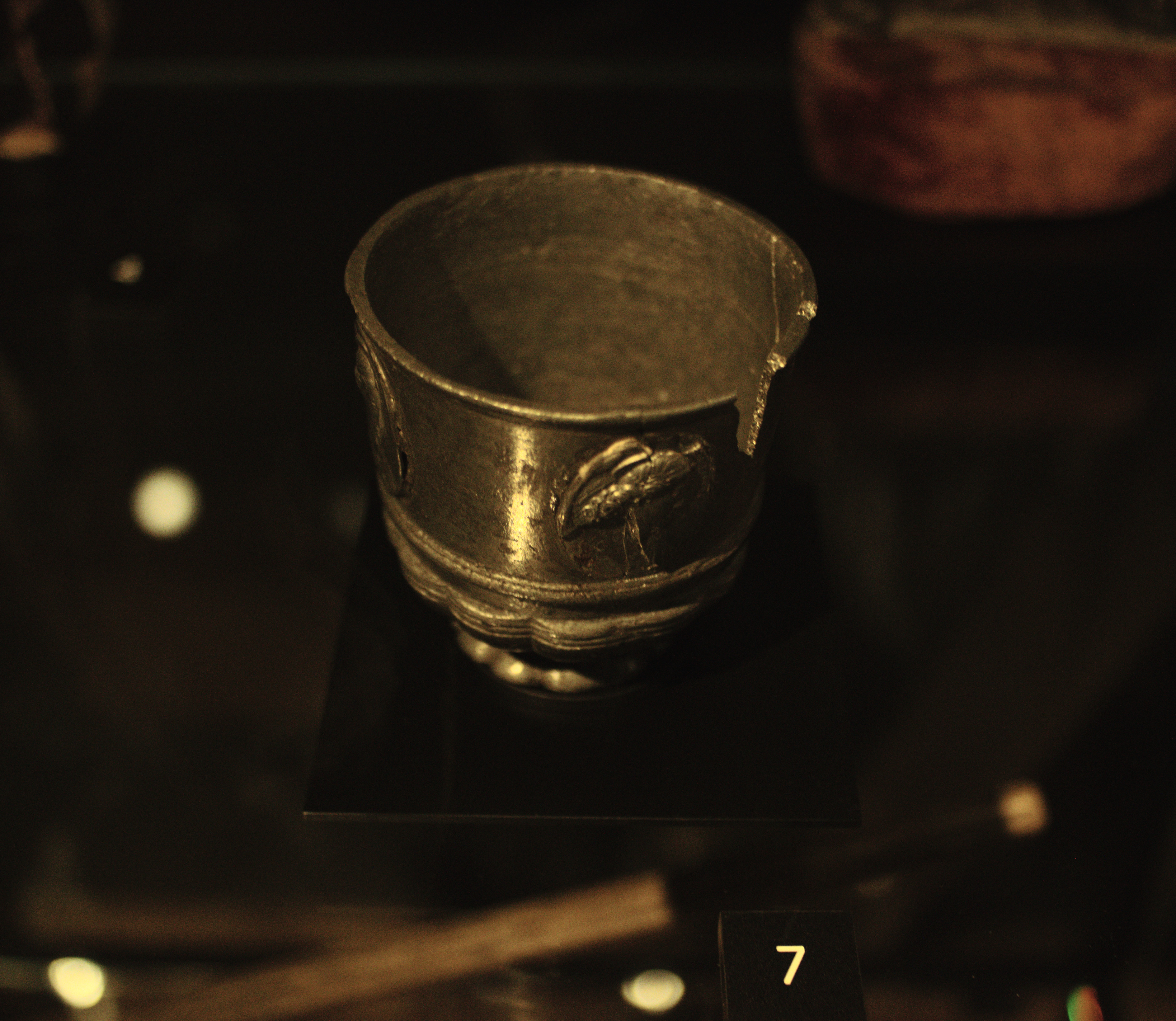 This antimonial cup is on display at the Boerhaave Museum in Leiden, The Netherlands. It was most likely produced in England, circa 1650-1700.